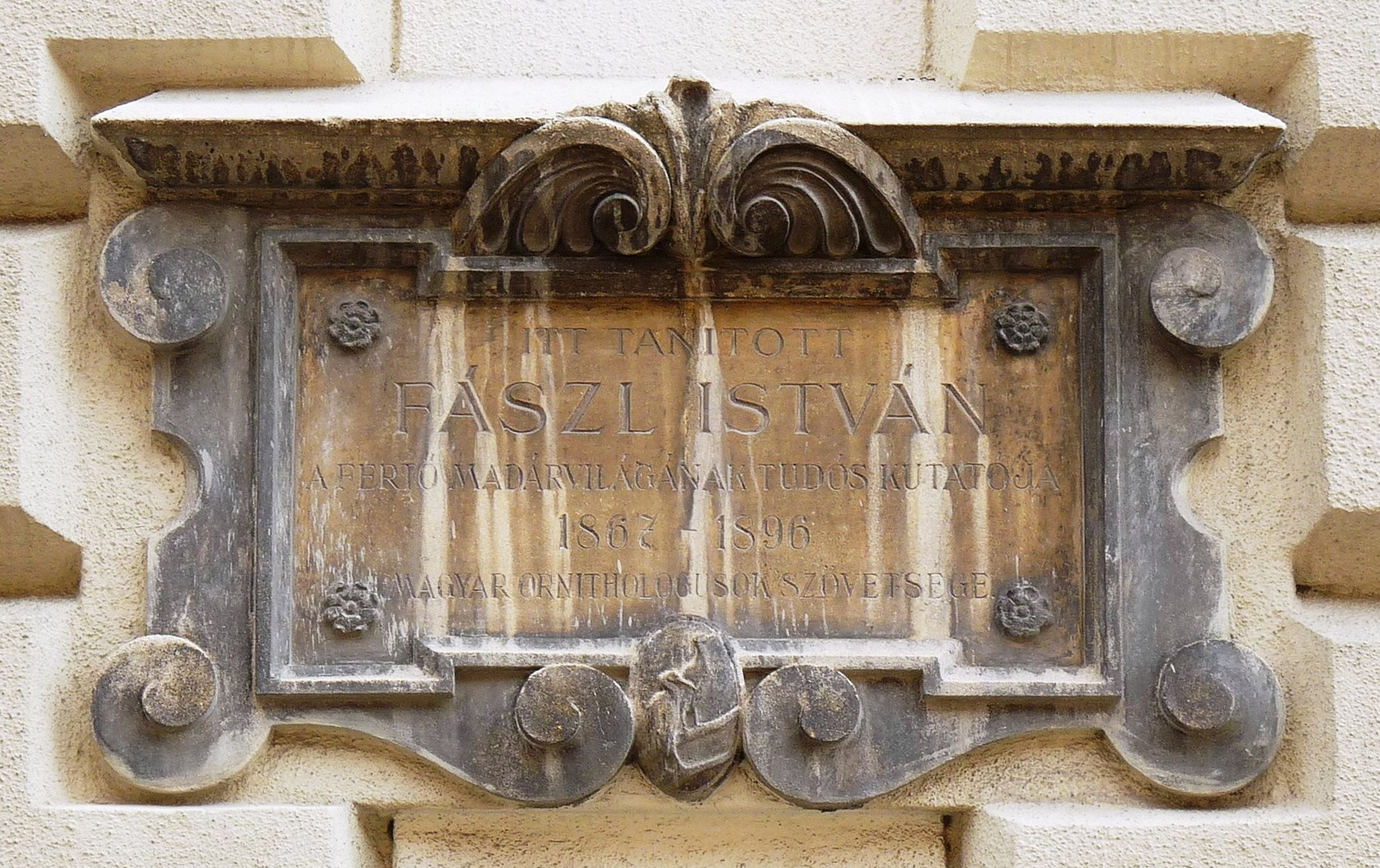 Commemorative plaque to Mr. István Fászl (1838–1900) Hungarian ornithologist and Benedictine teacher affixed to the front of his former school. (Sopron, Szent György Street Nr 9)